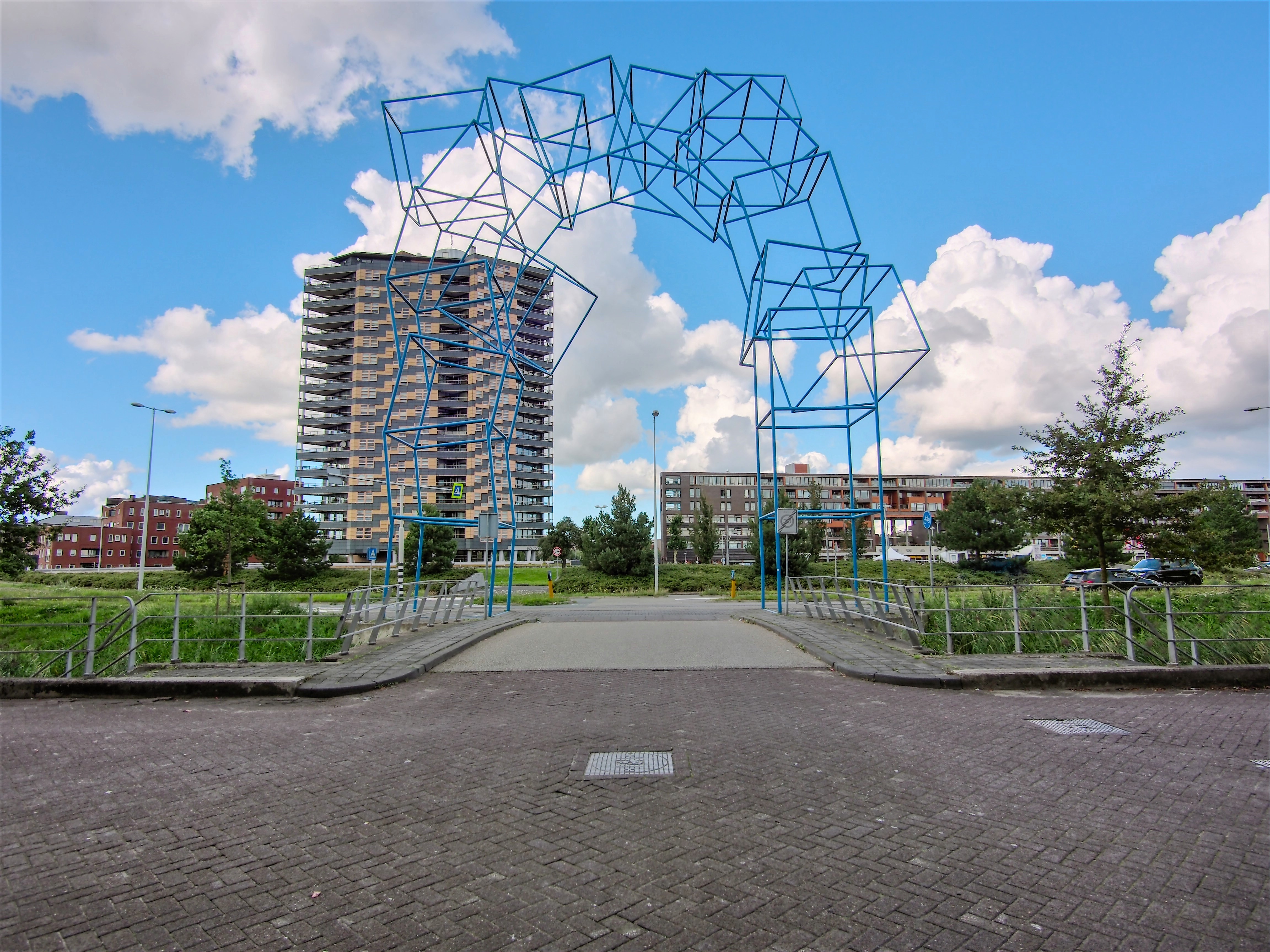 Photographed at Amsterdam, The Netherlands.